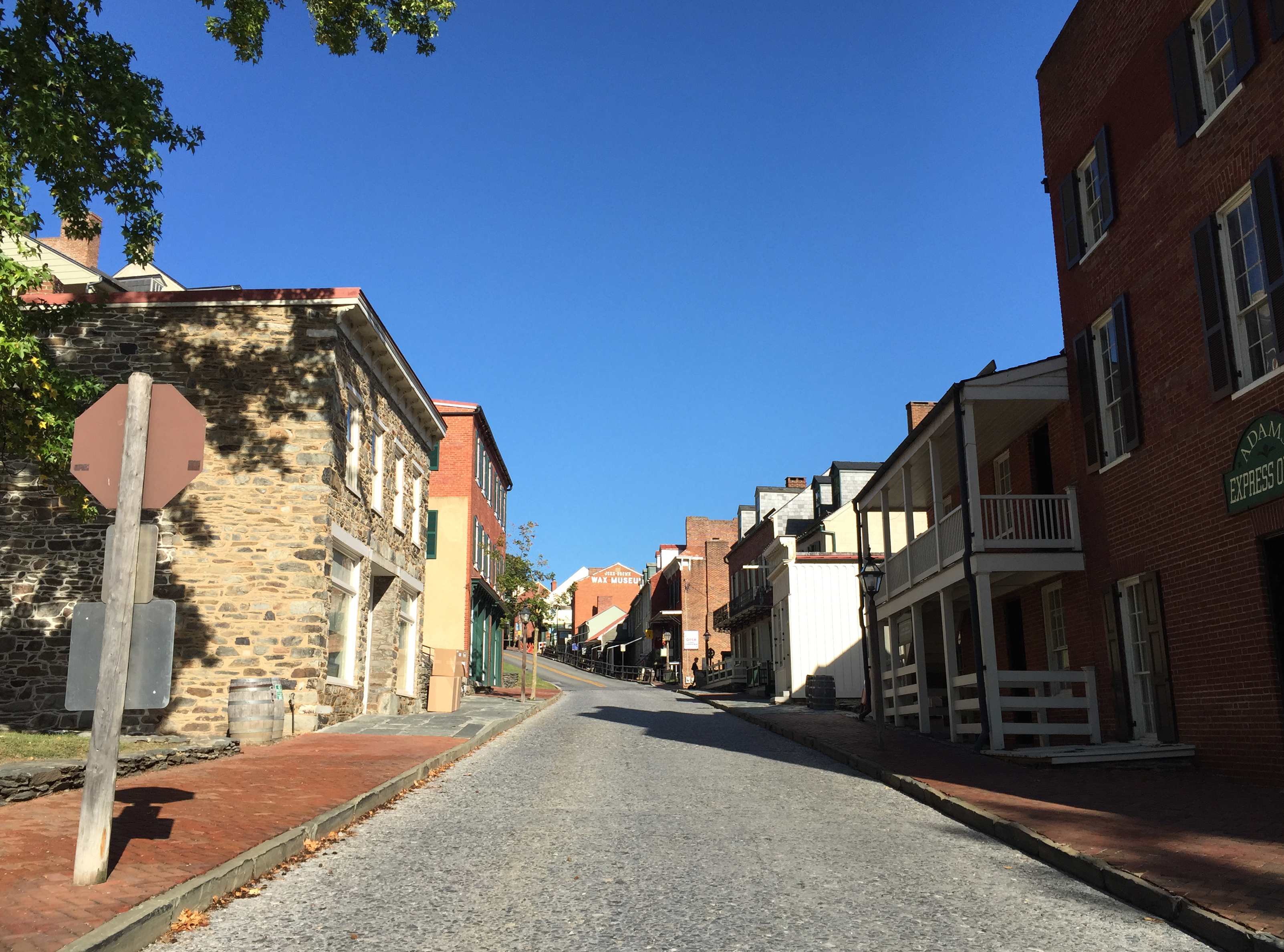 View "south" (actually northwest) along U.S. Route 340 Alternate (High Street) at Shenandoah Street in Harpers Ferry, Jefferson County, West Virginia